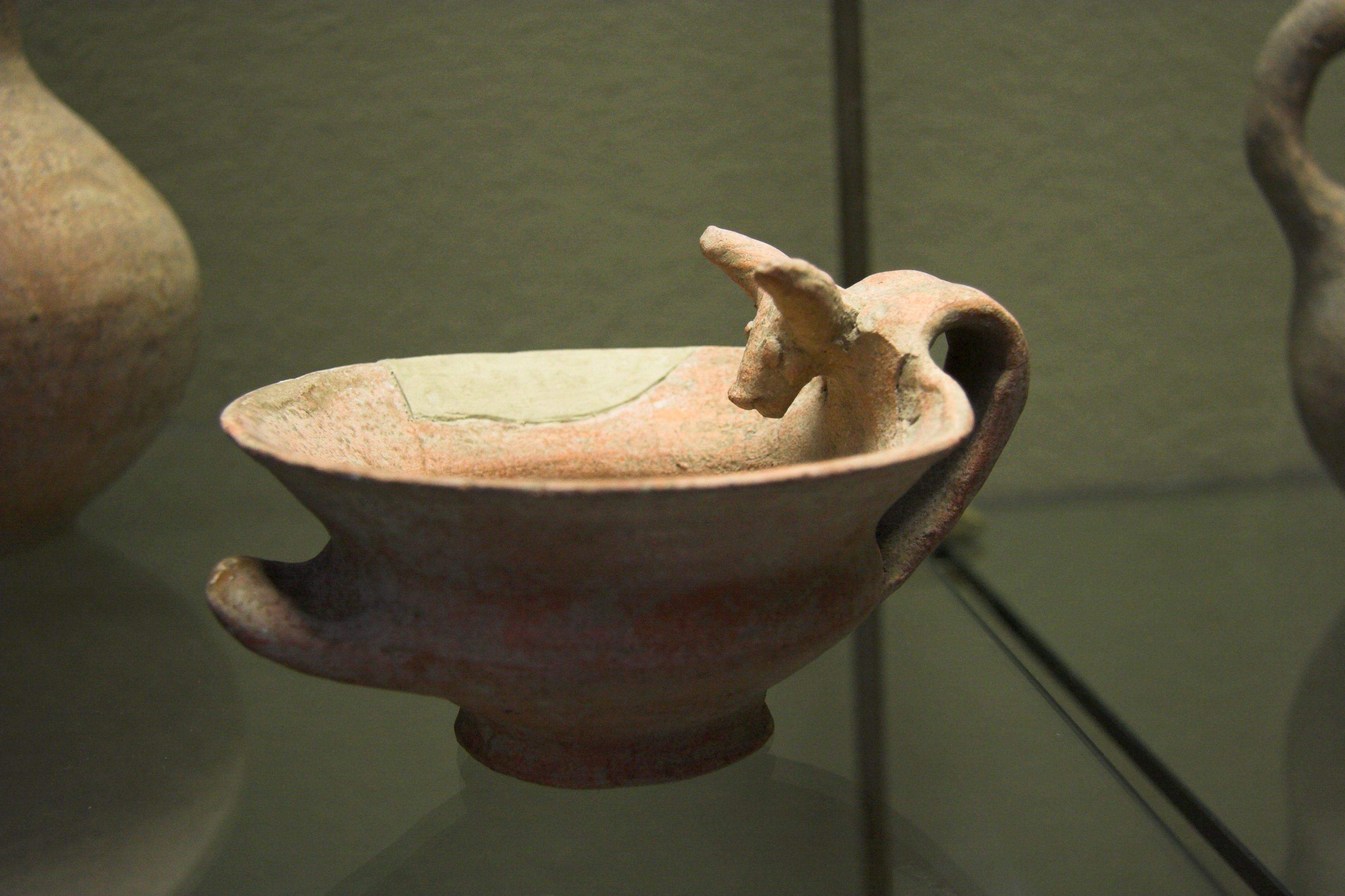 High hanlde carinated cup with bull protome on handle, clay. Sicílie, Final Bronze Age, Ausonian II, 1050-850 BC. Archaeological Museum of Syracuse.